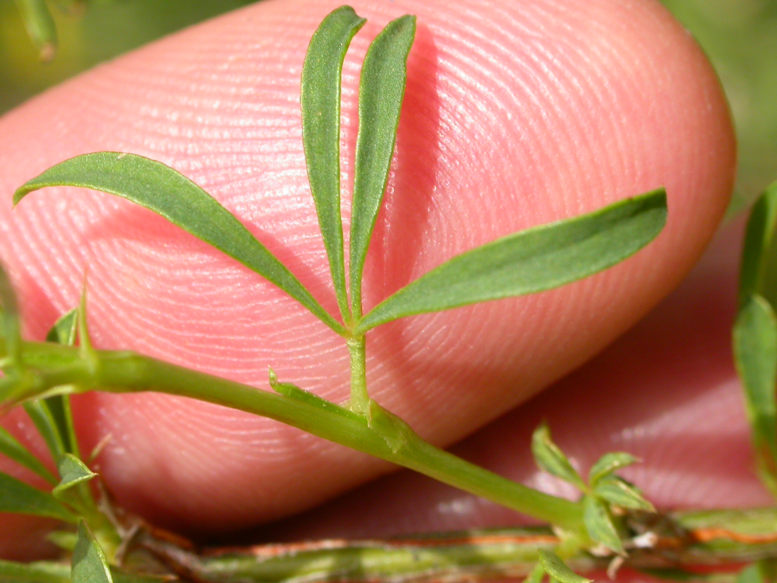 The leaf typically comprises four leaflets (in paripinnate fashion).